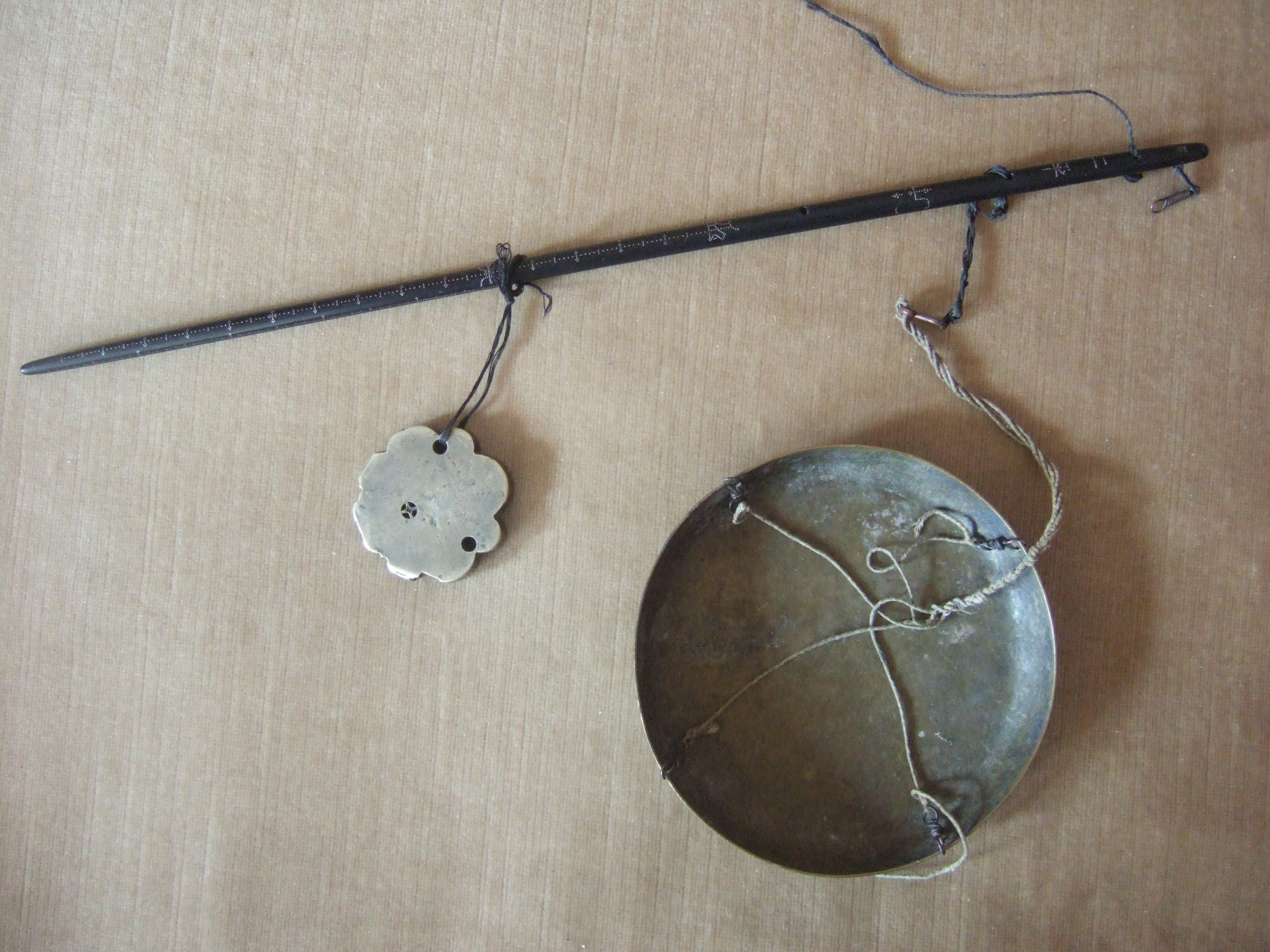 Tibetan scale of the "steelyard type" with wooden beam and one pan (early 20th century)